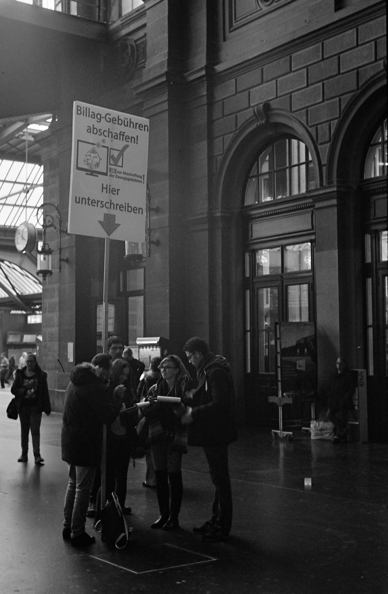 Collecting signatures for the federal popular initiative against television licence ("No-Billag-Initiative") at Zürich HB train station (scan from negative, Ilford XP2 Super 400, Leica IIIc, Summitar 50mm f/2).